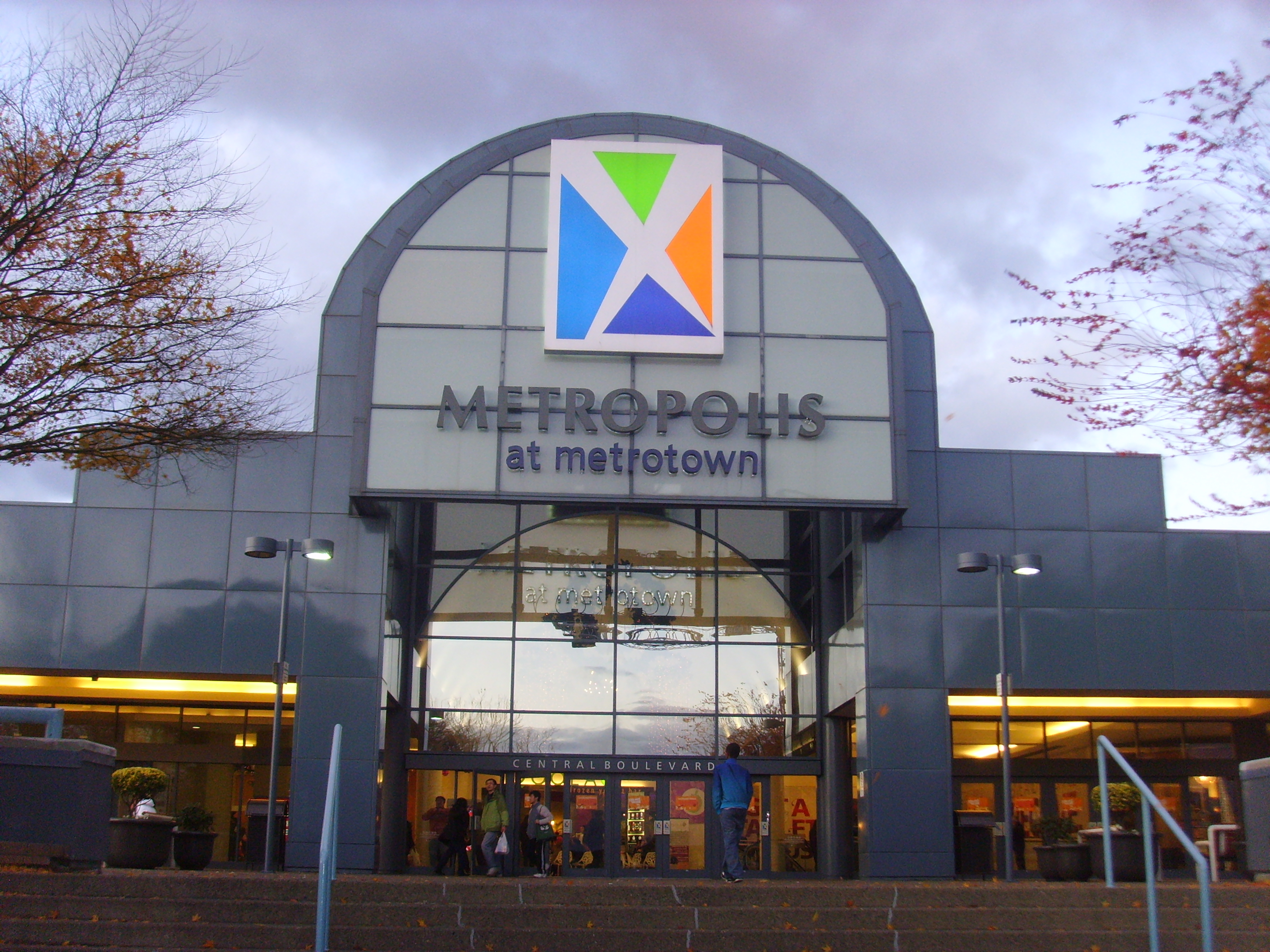 Entrance of Metropolis at Metrotown located in Burnaby